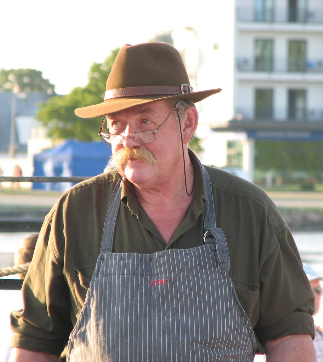 Vladislav Koržets performing in Kuressaare Maritime Days